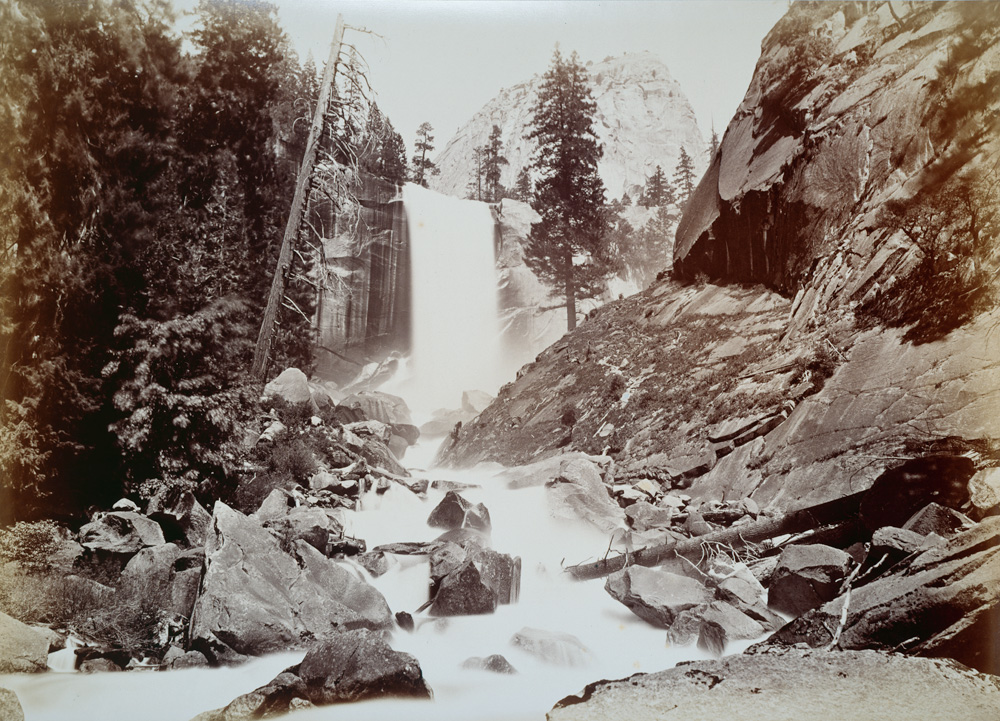 An album by Carleton E Watkins (1829-1916), one of the finest American landscape photographers of the nineteenth century.